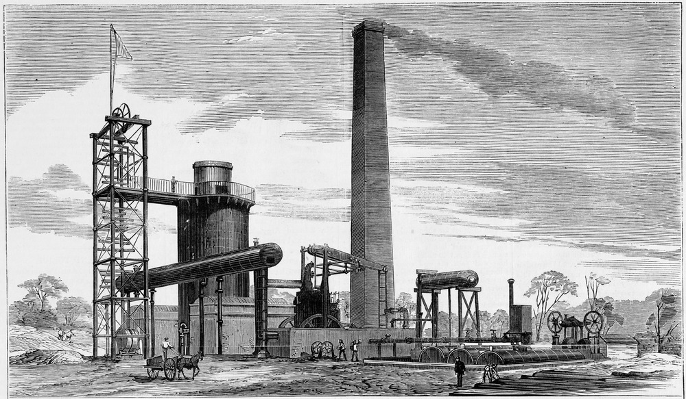 Shows the blast furance, steam-powered elevator, blowing engine, air receivers and chimney stack of a blast furnace that once existed at Port Lempiere (now part of Beauty Point), on the Tamar River estuary in Tasmania, Australia. It was operated by the British and Tasmanian Charcoal Iron Company in 1876 and 1877. The plant was broken up and sold in 1883.